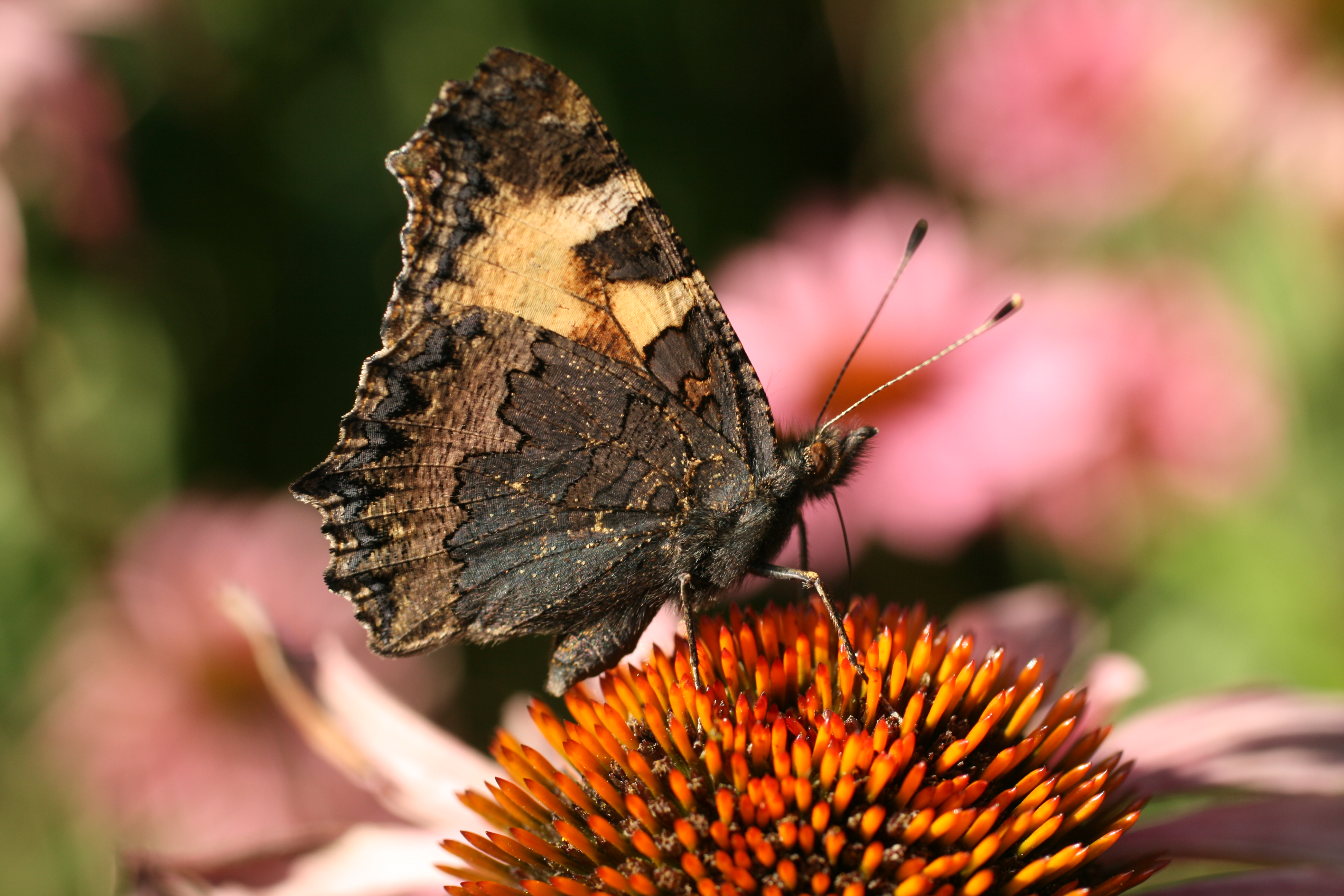 Aglais urticae seen in Folkets Park, Malmö, Sweden.